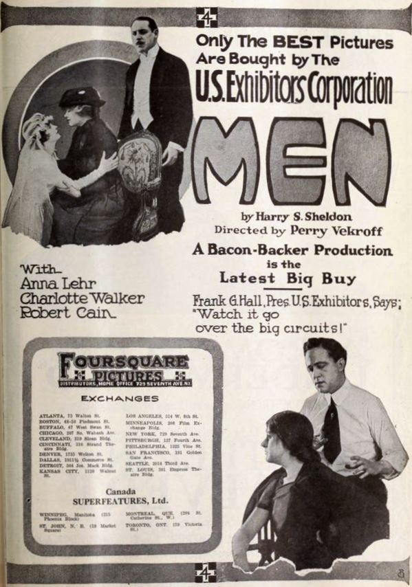 Advertisement for the American drama film Men (1918) with Anna Lehr, Charlotte Walker, and Robert Cain, on page 5 of the May 25, 1918 Exhibitors Herald.